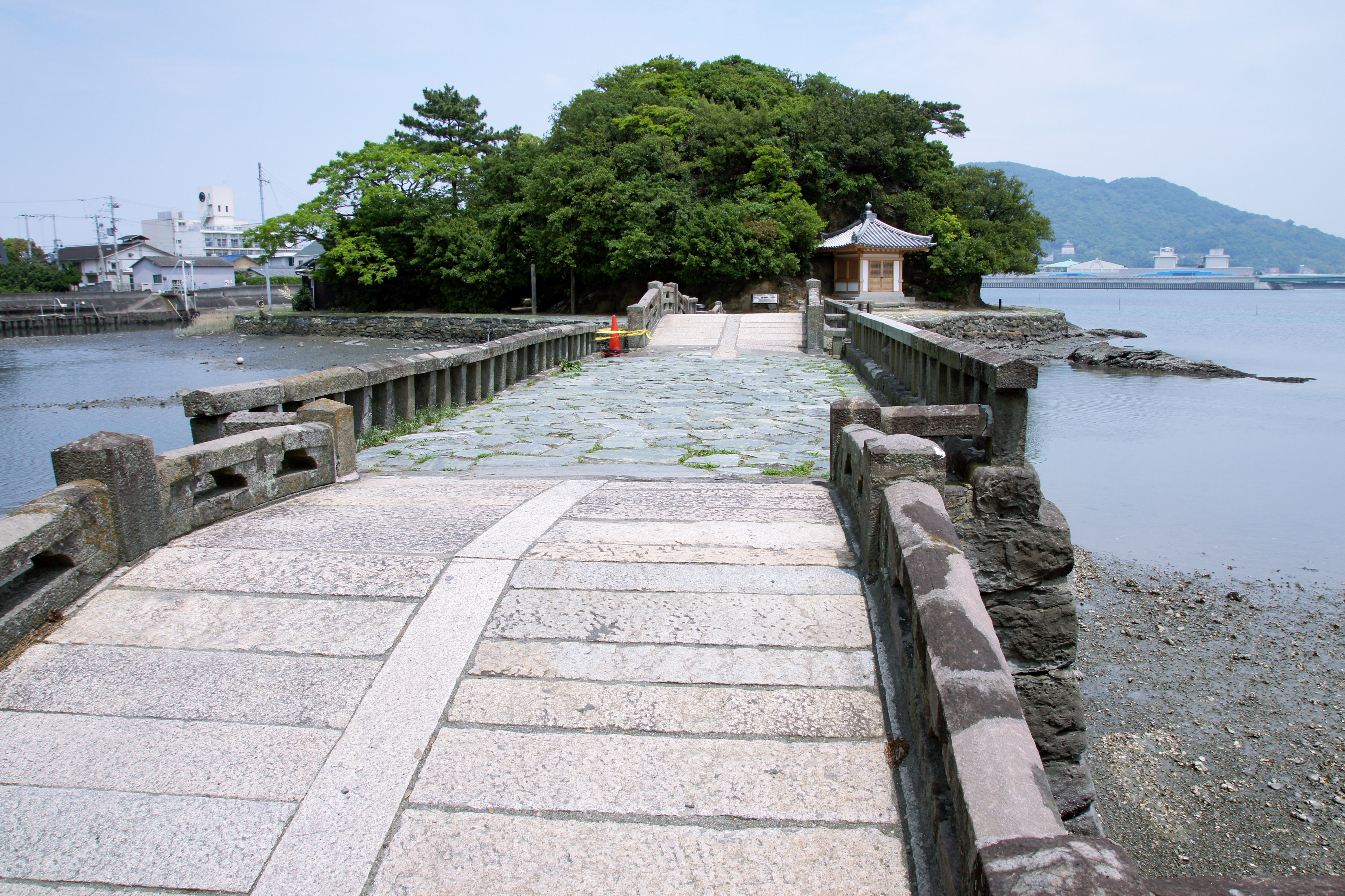 Sandan Bridge and Mount Imose in Wakanoura, Wakayama City, Wakayama Prefecture, Japan